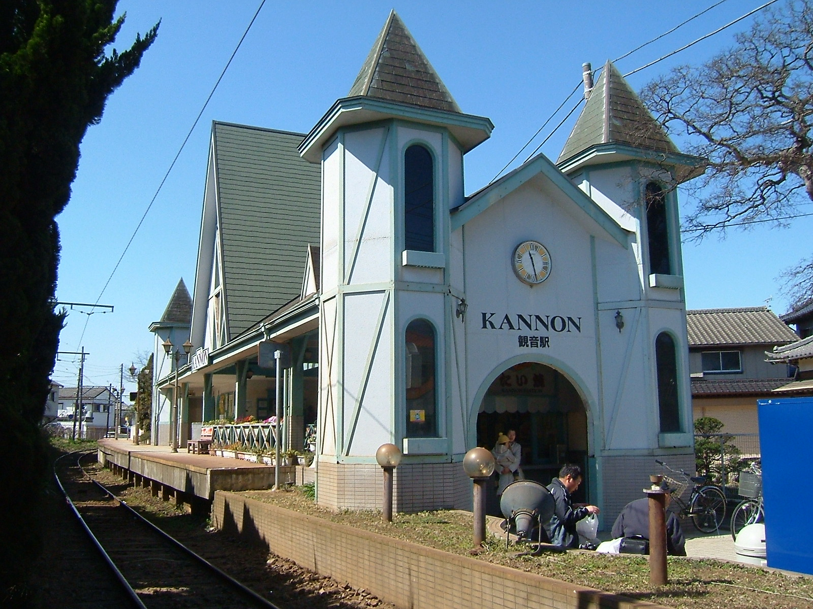 Kannon Station on the Choshi Electric Railway in Chiba Prefecture, Japan